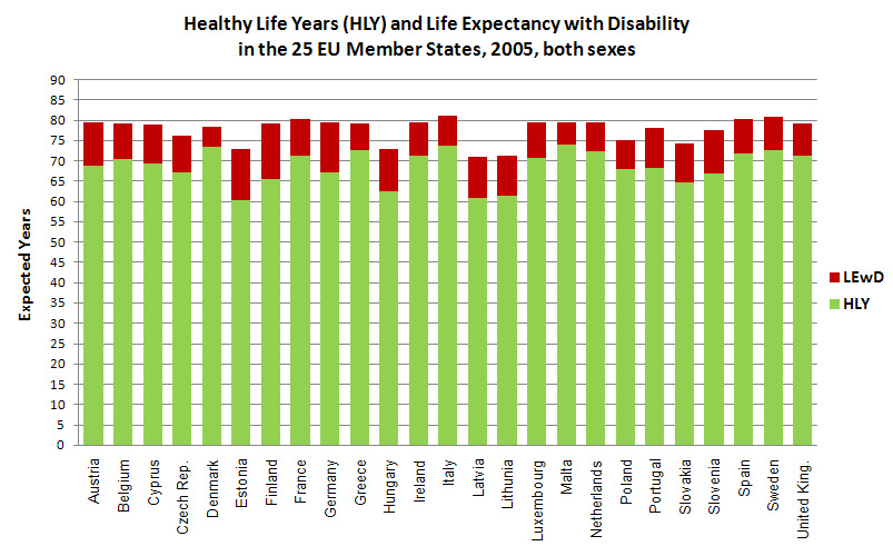 Healthy Life Years 2005 in EU-25